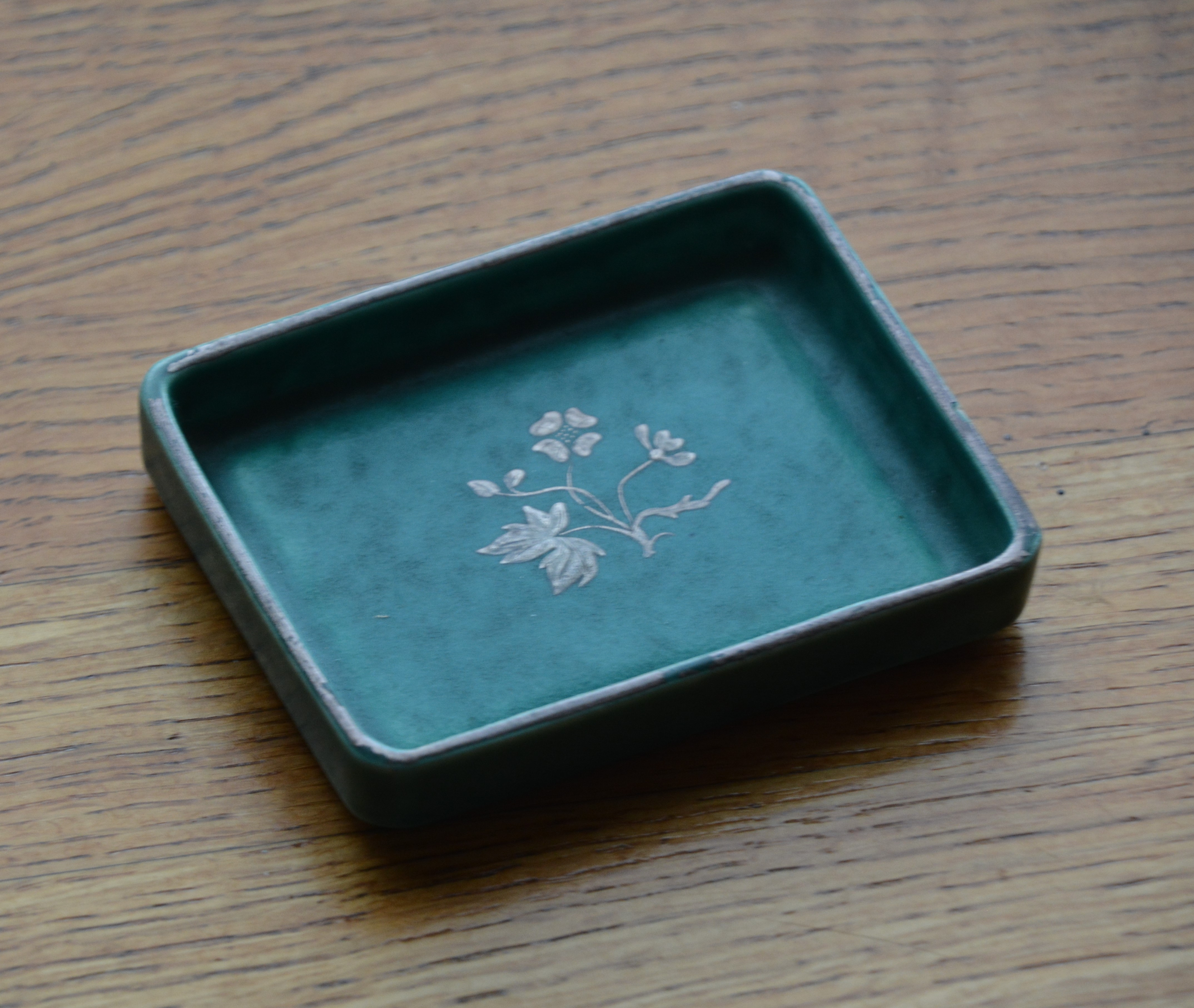 Askfat i Gustavsbergs Argentaserie av Wilhelm Kåge